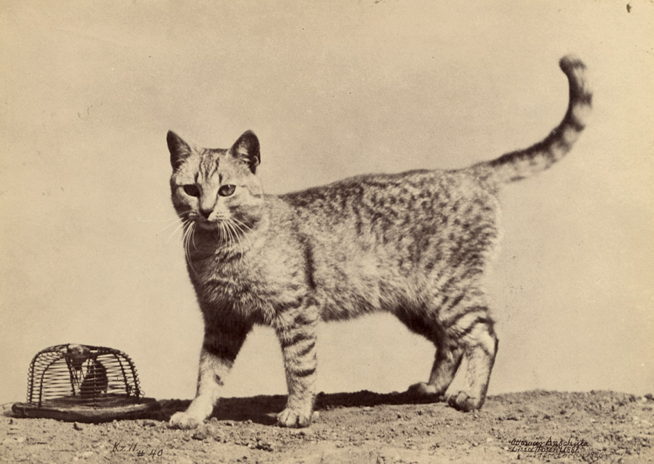 Cat with mousetrap. 1886. Albumen print. 14,5 x 20,2 cm. Photographer's name and date in the negative in lower right, flush-mounted to card; annotated in English in pencil and archive stamp on the verso.